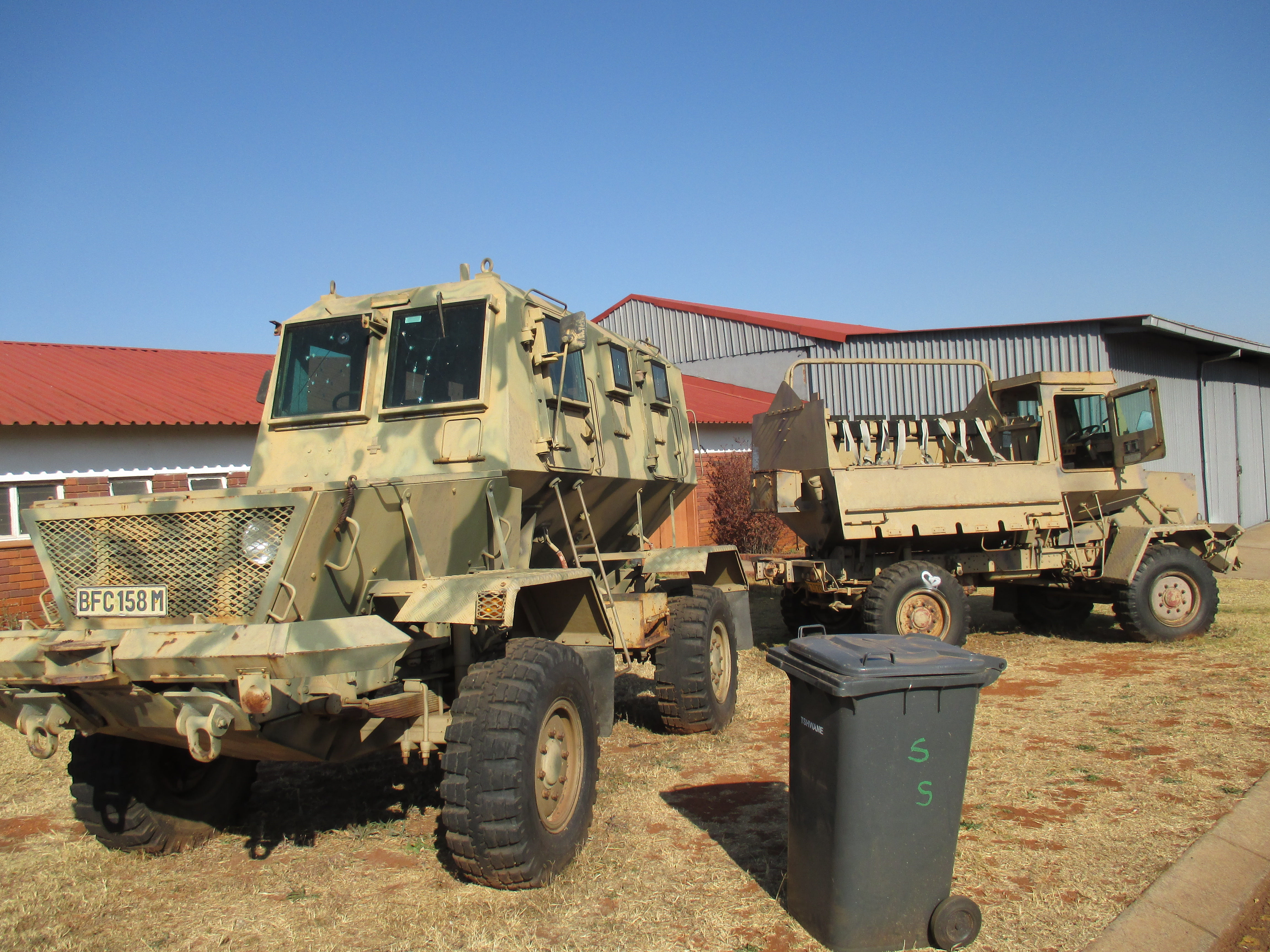 Description: Buffel armoured personnel carriers outside Swartkop Air Force Base, Pretoria.